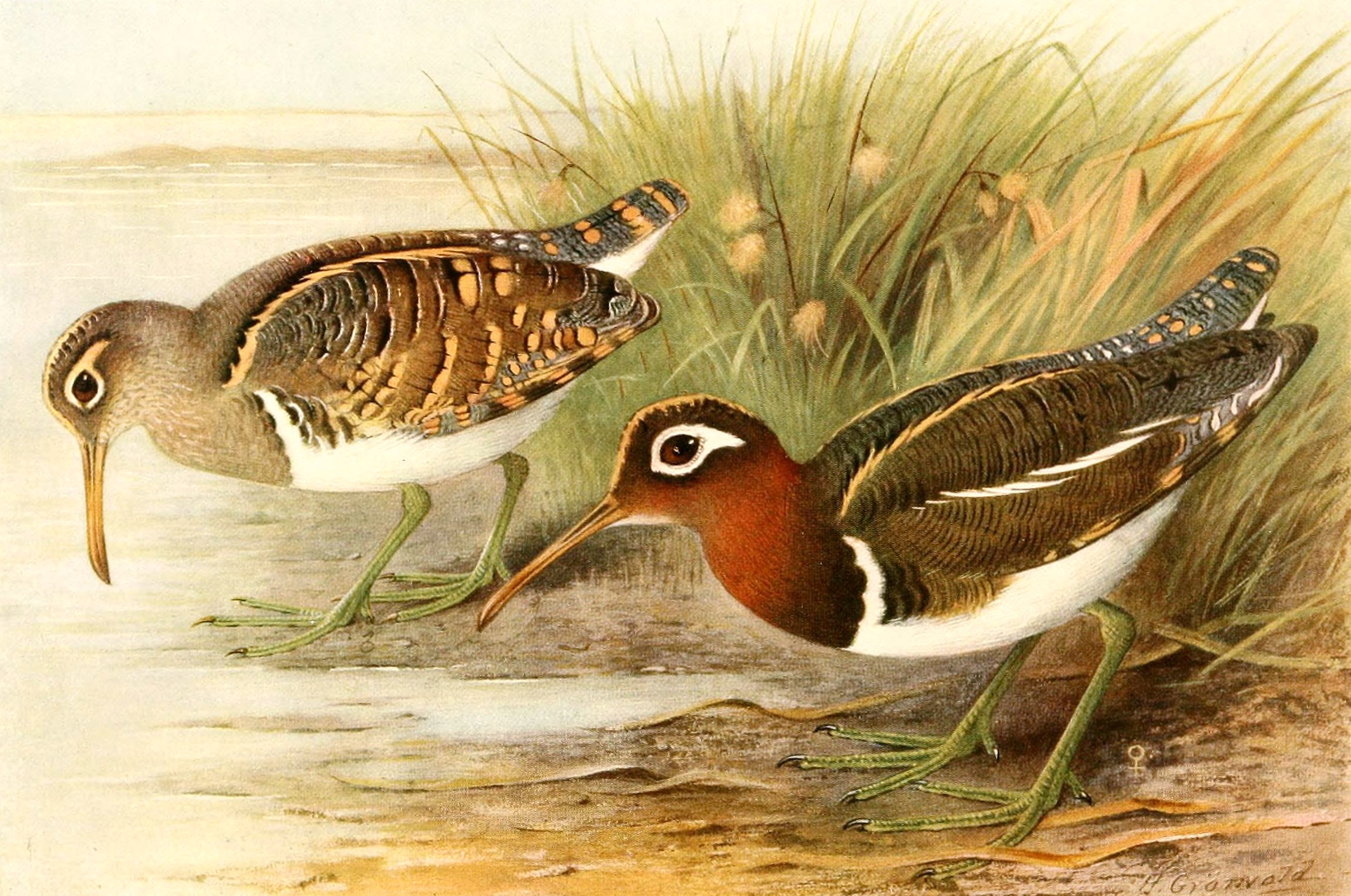 The Painted Snipe Rostratula capensis = Rostratula benghalensis (Greater Painted Snipe)